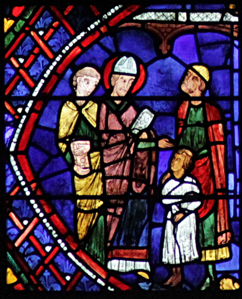 Fragment of File:Chartres 36 -Corrected.jpg - Life of St Apollinaris